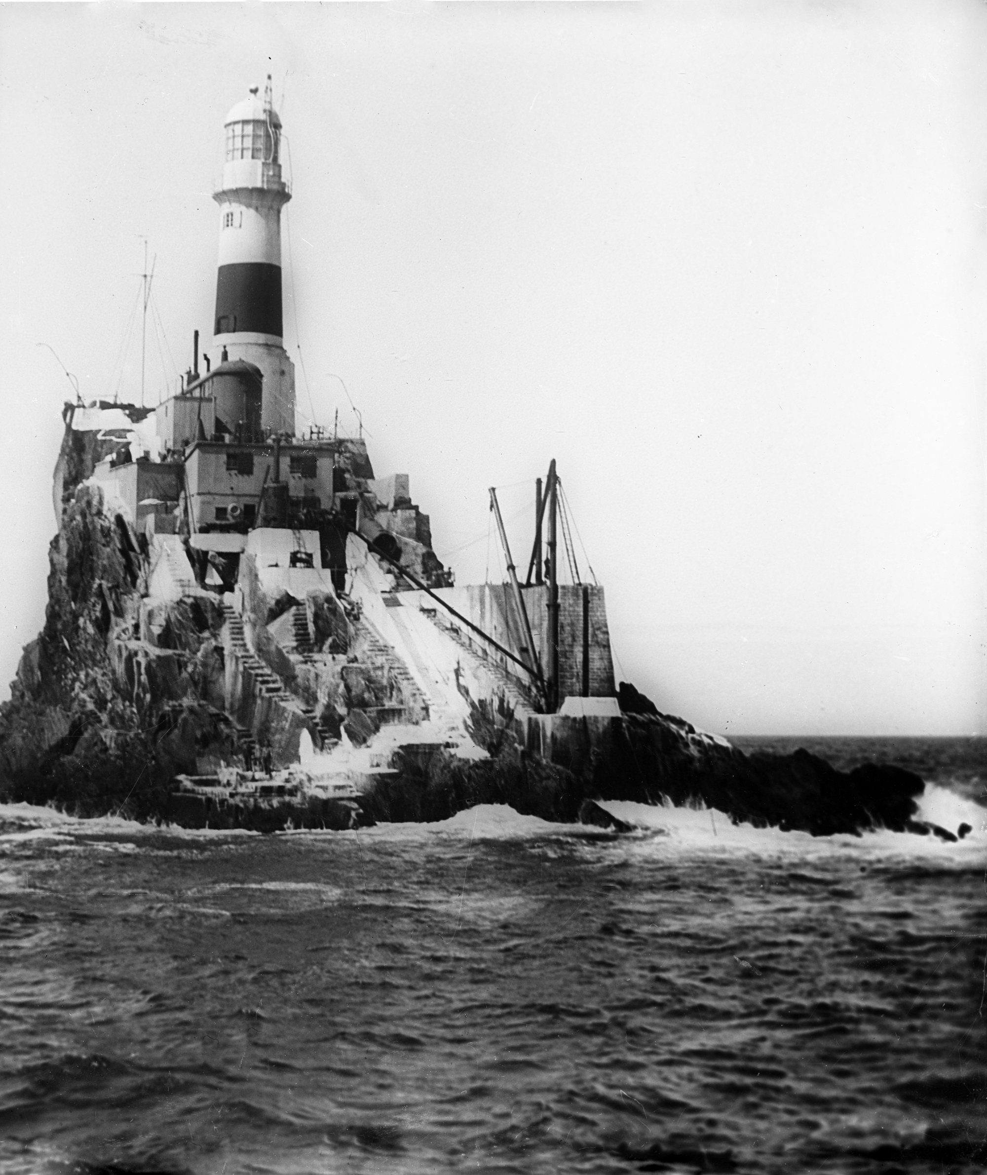 Not the usual quality of our Lawrence Collection photographs perhaps, but this can't have been an easy one to take as photographer and equipment must have been on a boat, and the sea (officially North Atlantic?) isn't exactly looking like a mill pond on this day. Date: 1900-ish? NLI Ref.: L_ROY_06669